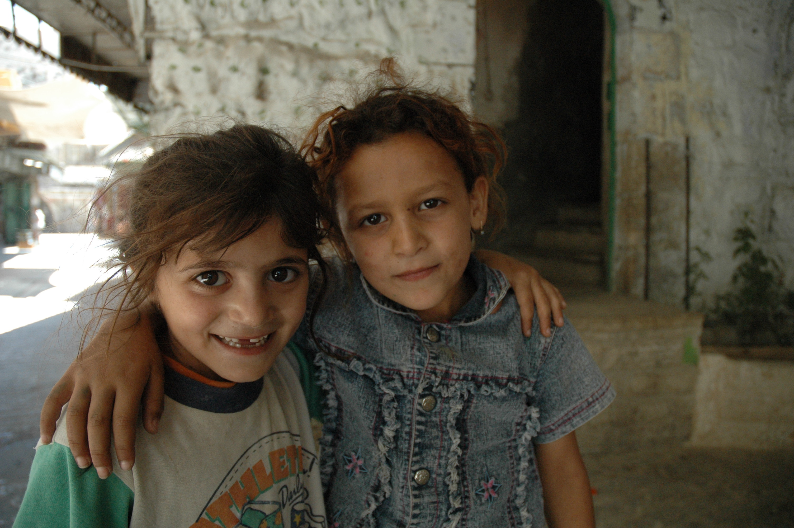 Hebron: Young members of one of the few Palestinian families determined not to leave their homes in the old city.